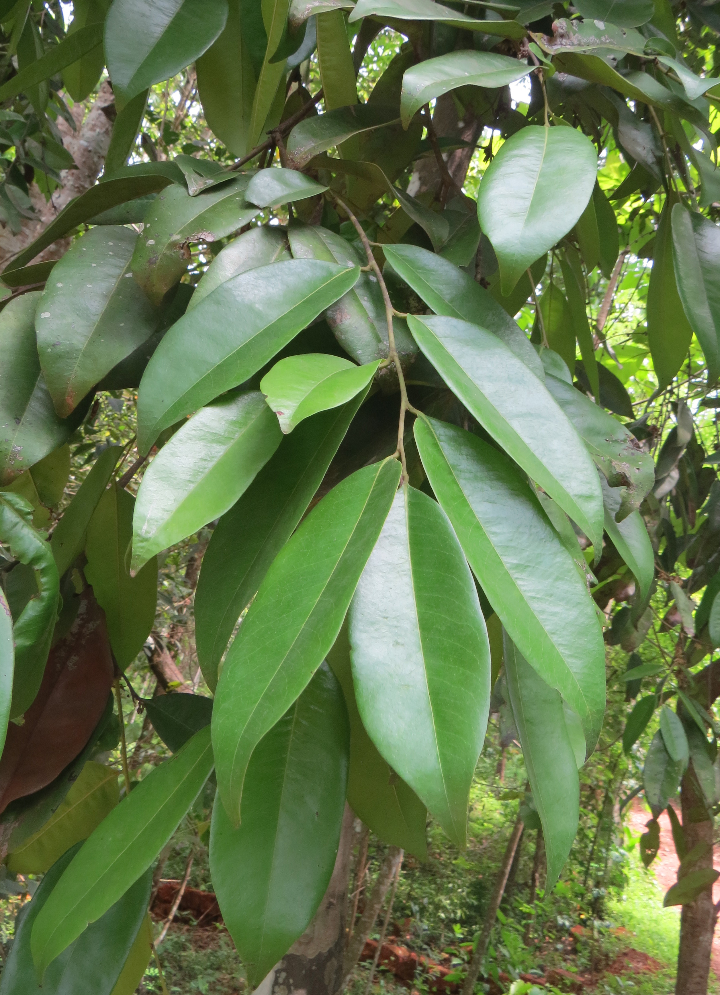 Diospyros candolleana